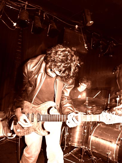 Andrew Watson of Because of Ghosts